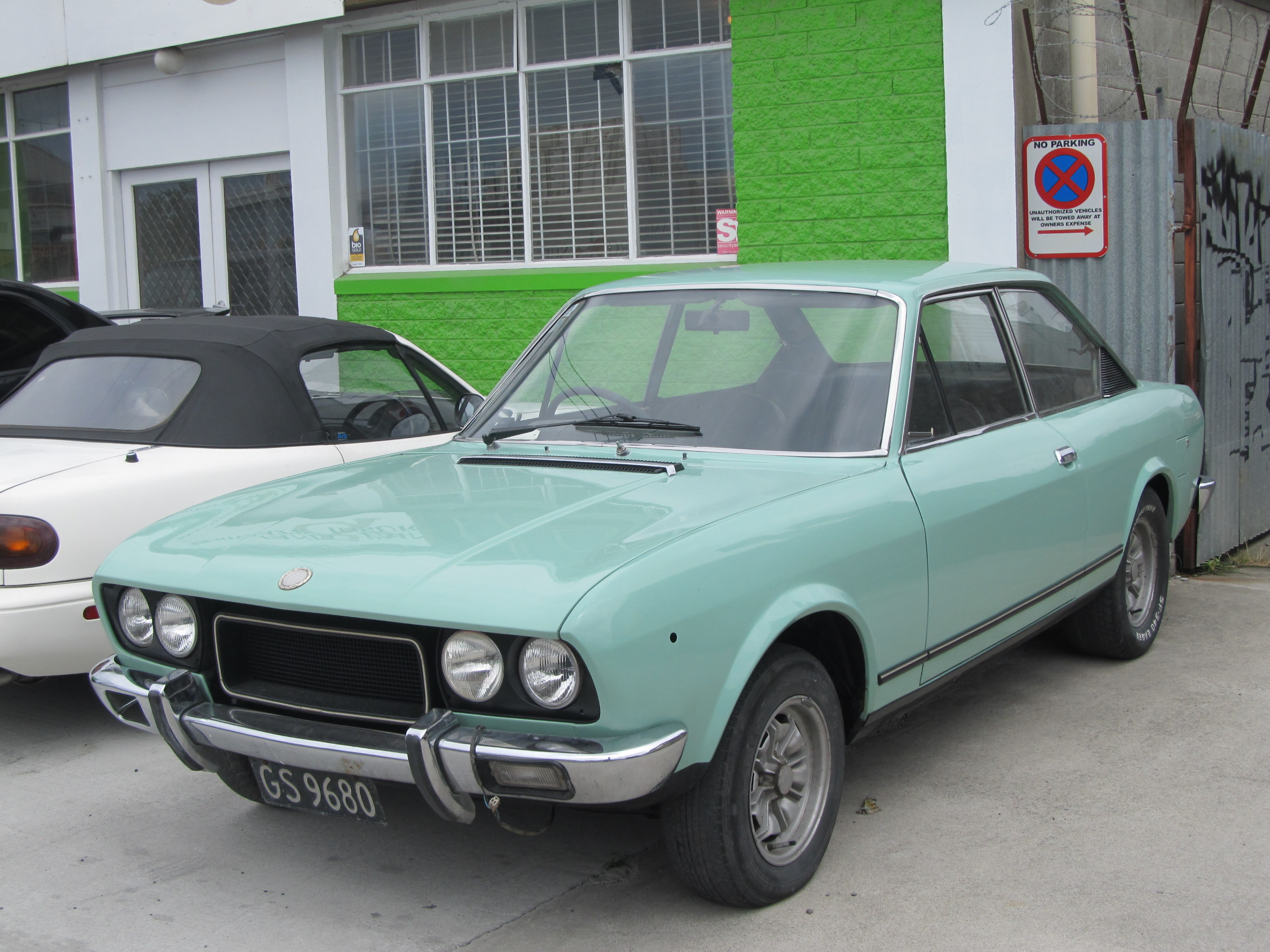 GS9680 No record for this one on CarJam, so I'm just going by the plate for the year. I seem to have seen more of these this year than 124 saloons! This was just up the road from the US spec 924 and Cadillac limo.